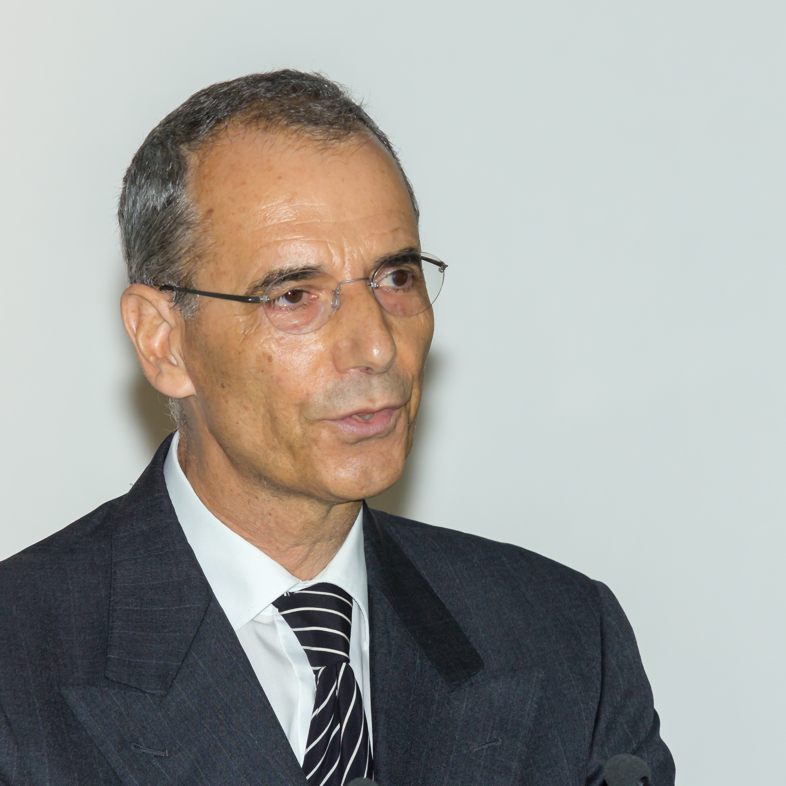 Award ceremony of the European Academy of Sciences and Arts in the city townhall of Cologne Photo: Lecture by Prof. Dr. Michael Wolffsohn "Peace by Federalism"